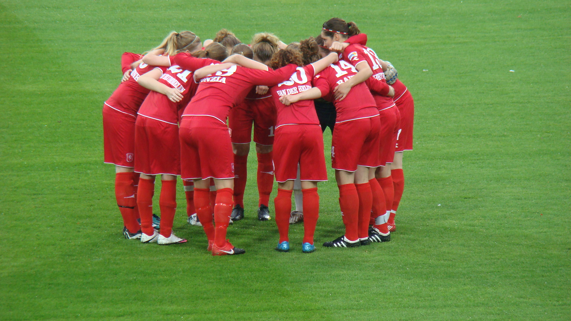 FC Twente women's squad